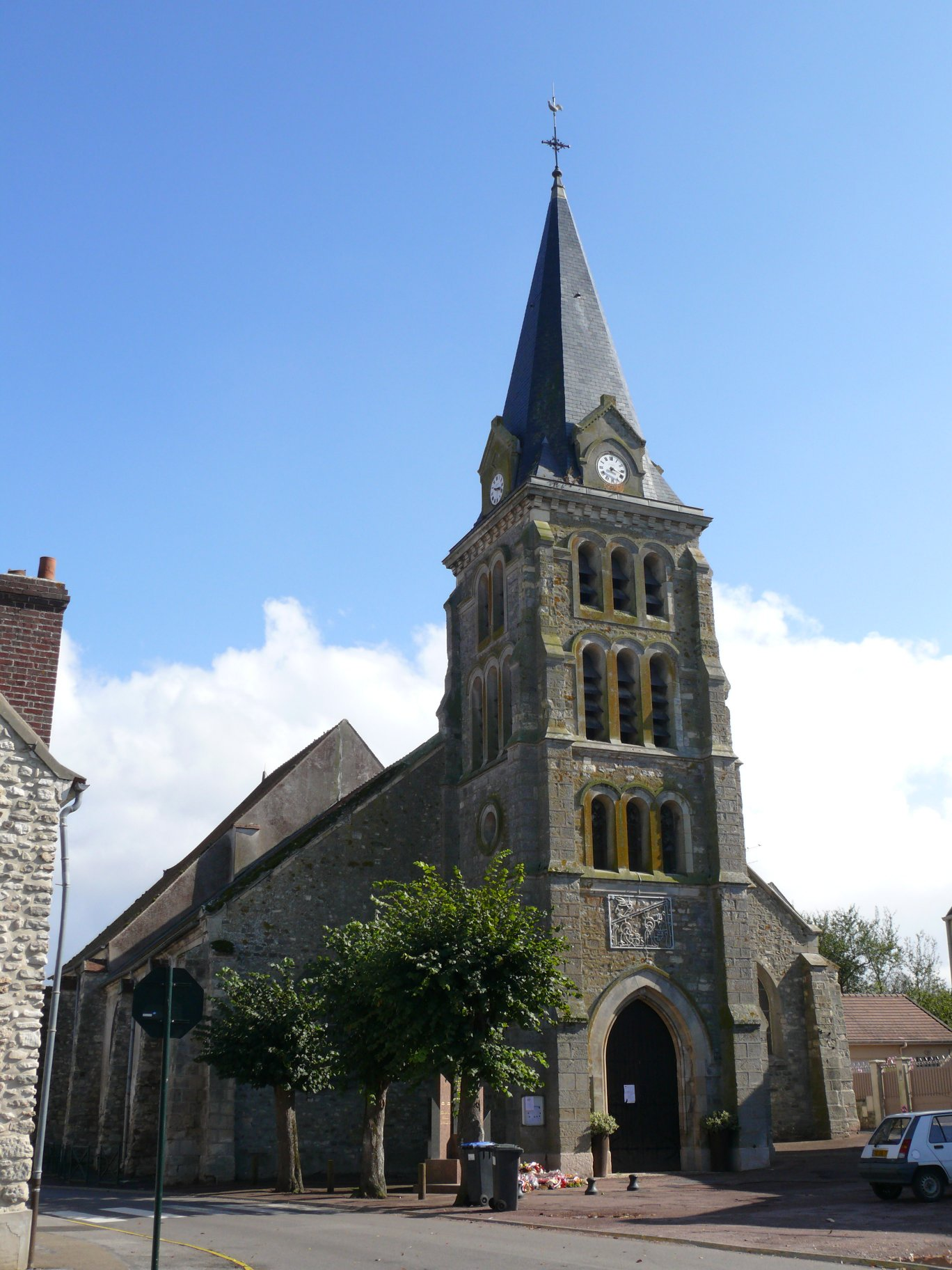 Saint-Germain-d'Auxerre's church of Oissery (Seine-et-Marne, Île-de-France, France).